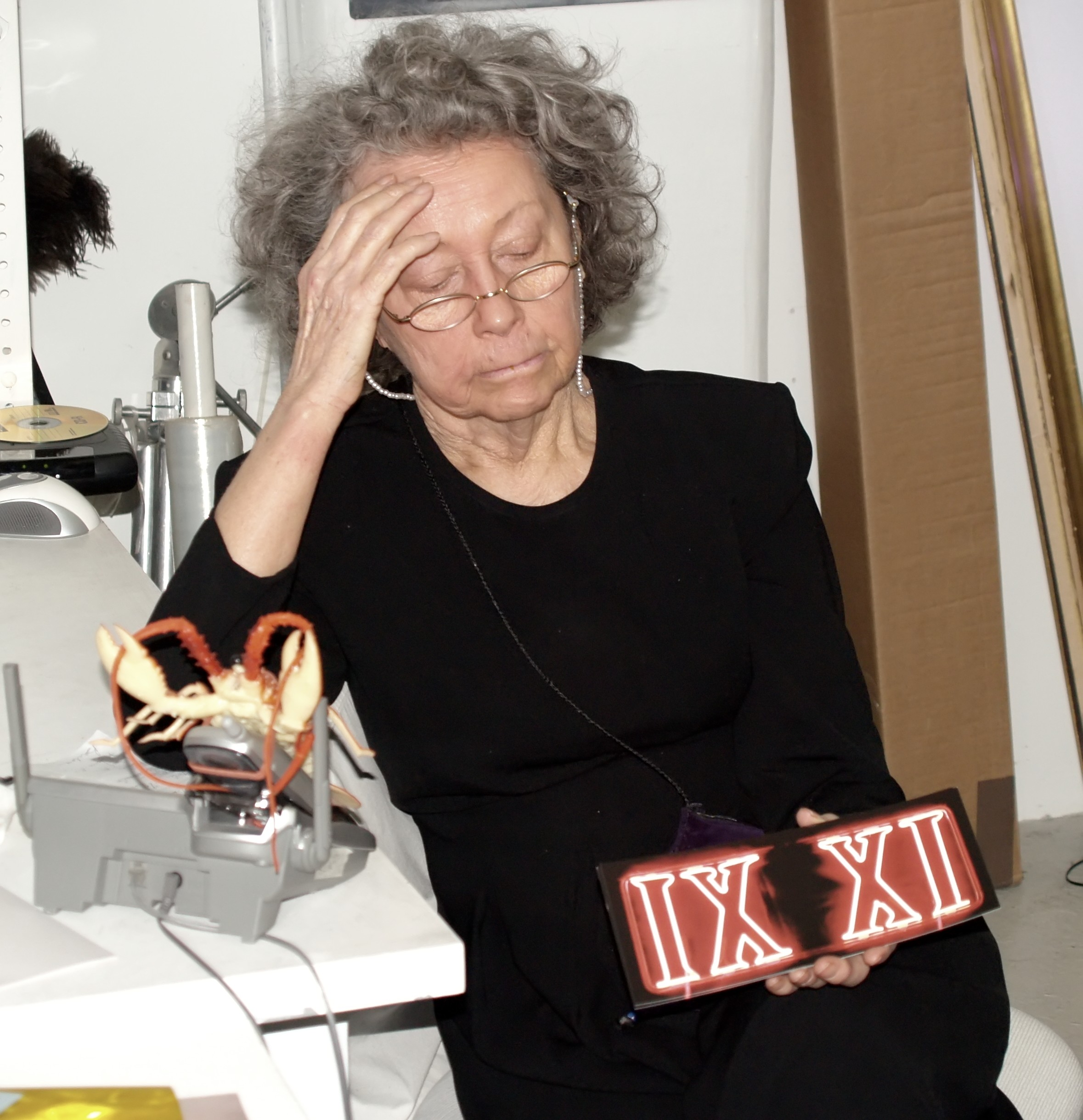 Warhol Superstar Ultra Violet (Isabelle Collin Dufresne) — at her NYC studio in 2008.